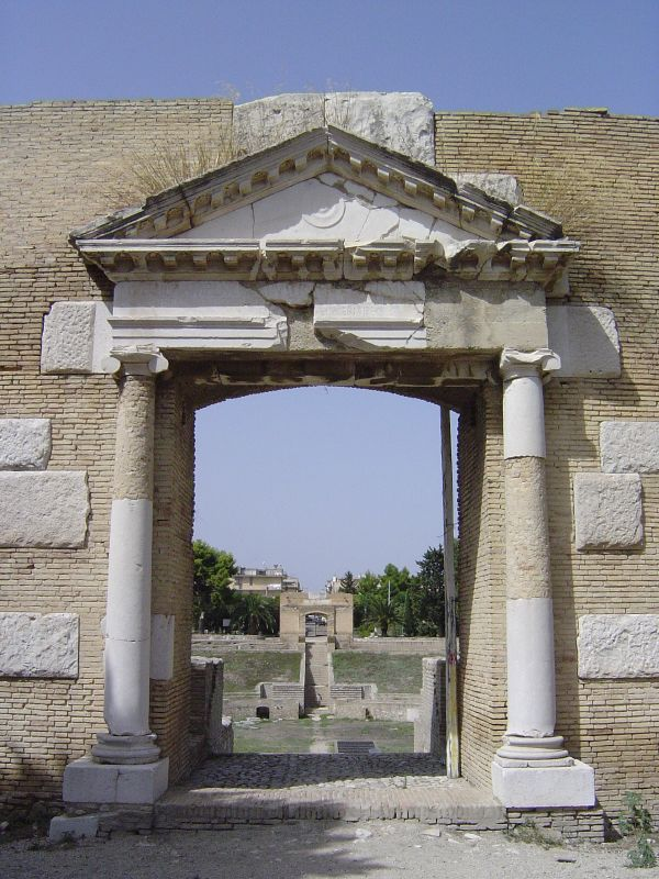 The amphitheatre of Lucera, Italy